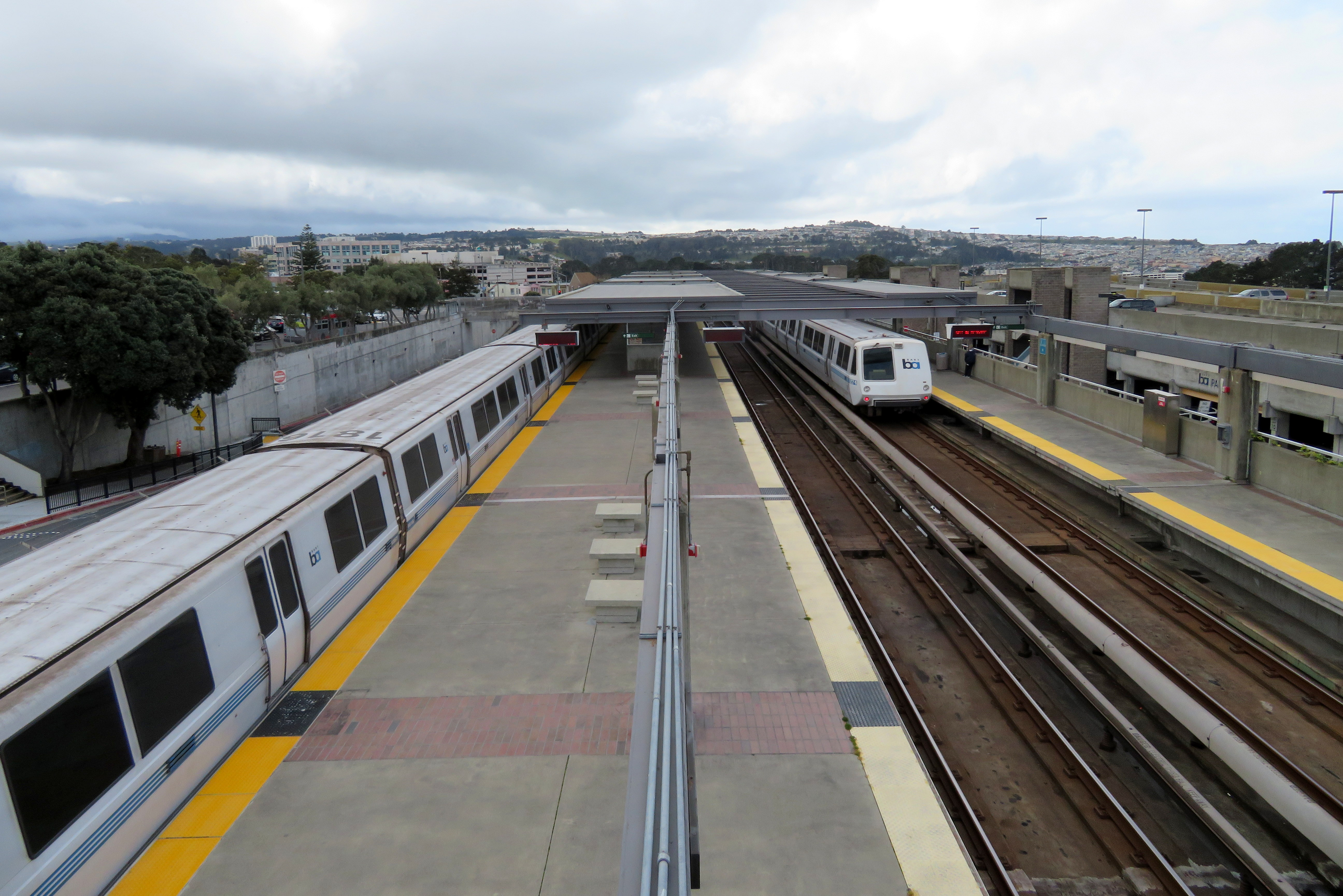 Daly City station viewed from the footbridge at the north end of the platforms in March 2018